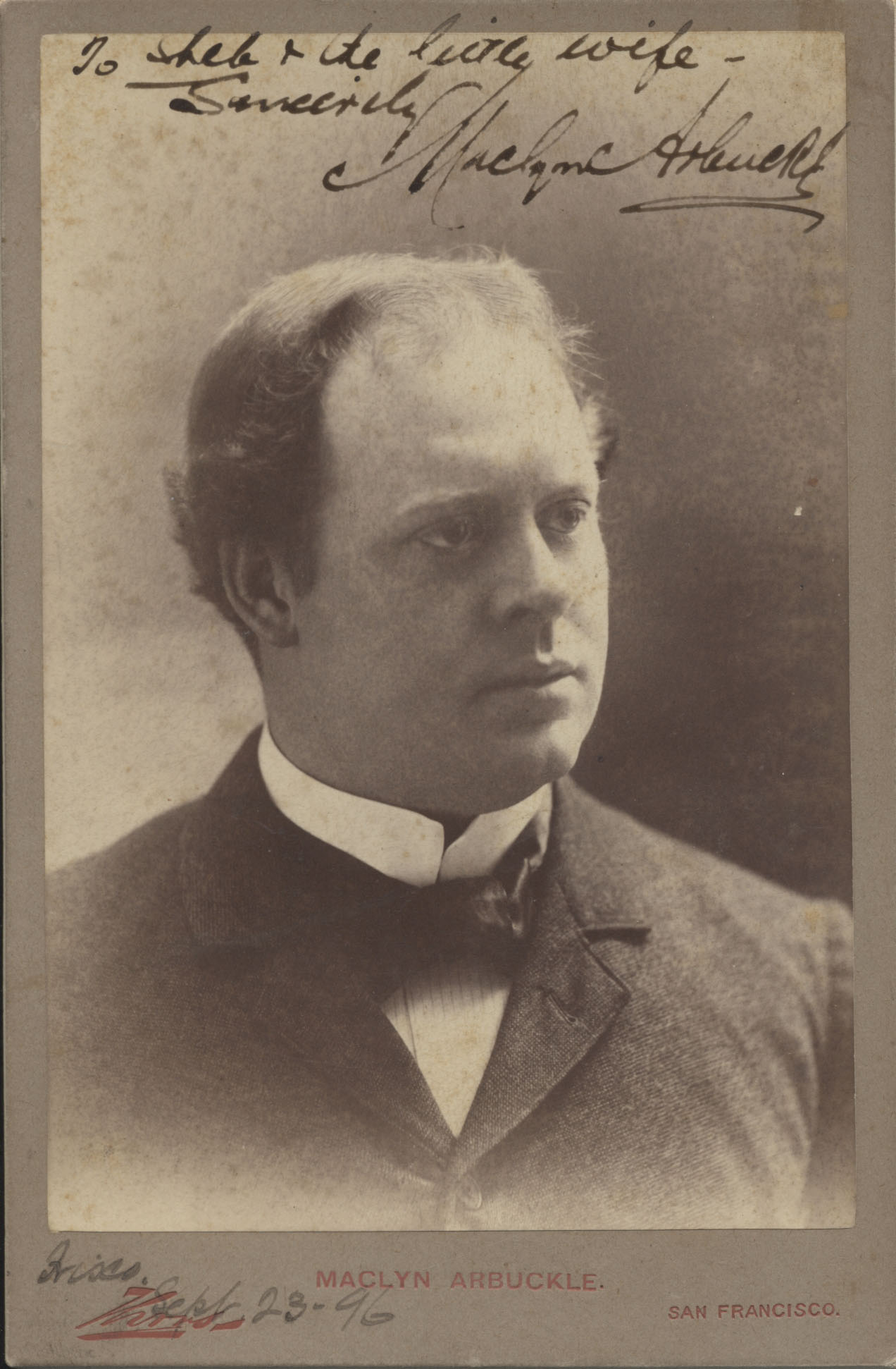 Maclyn Arbuckle, 1896